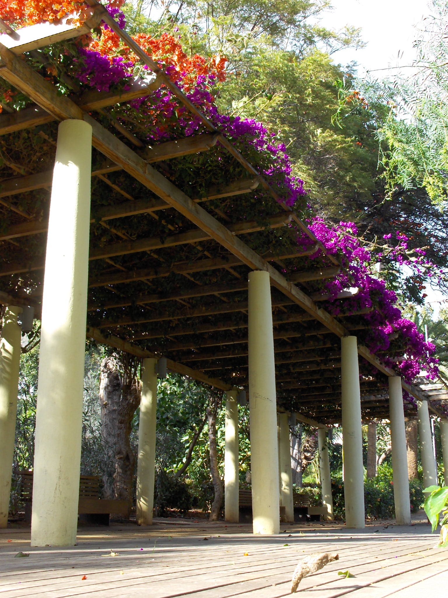 Pergola covered by Bougainvillea, in a park in Santa Cruz de Tenerife, Canary Islands.